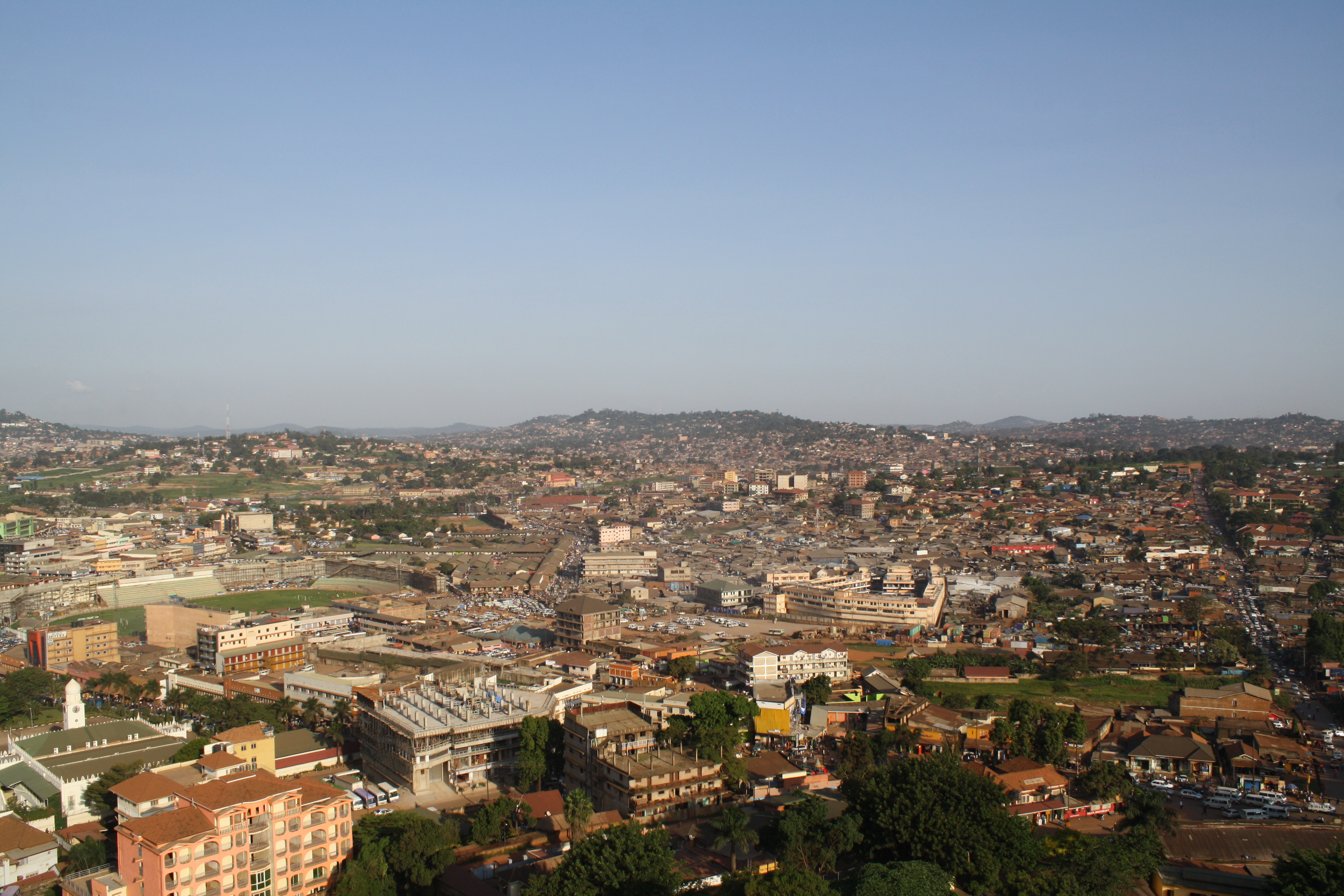 View over Kampala Downtown from Gadaffi Mosque, Uganda